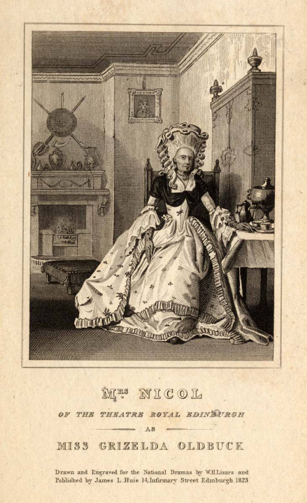 Mrs. Nicol of the Theatre Royal Edinburgh as Miss Grizelda Oldbuckthe National Drama